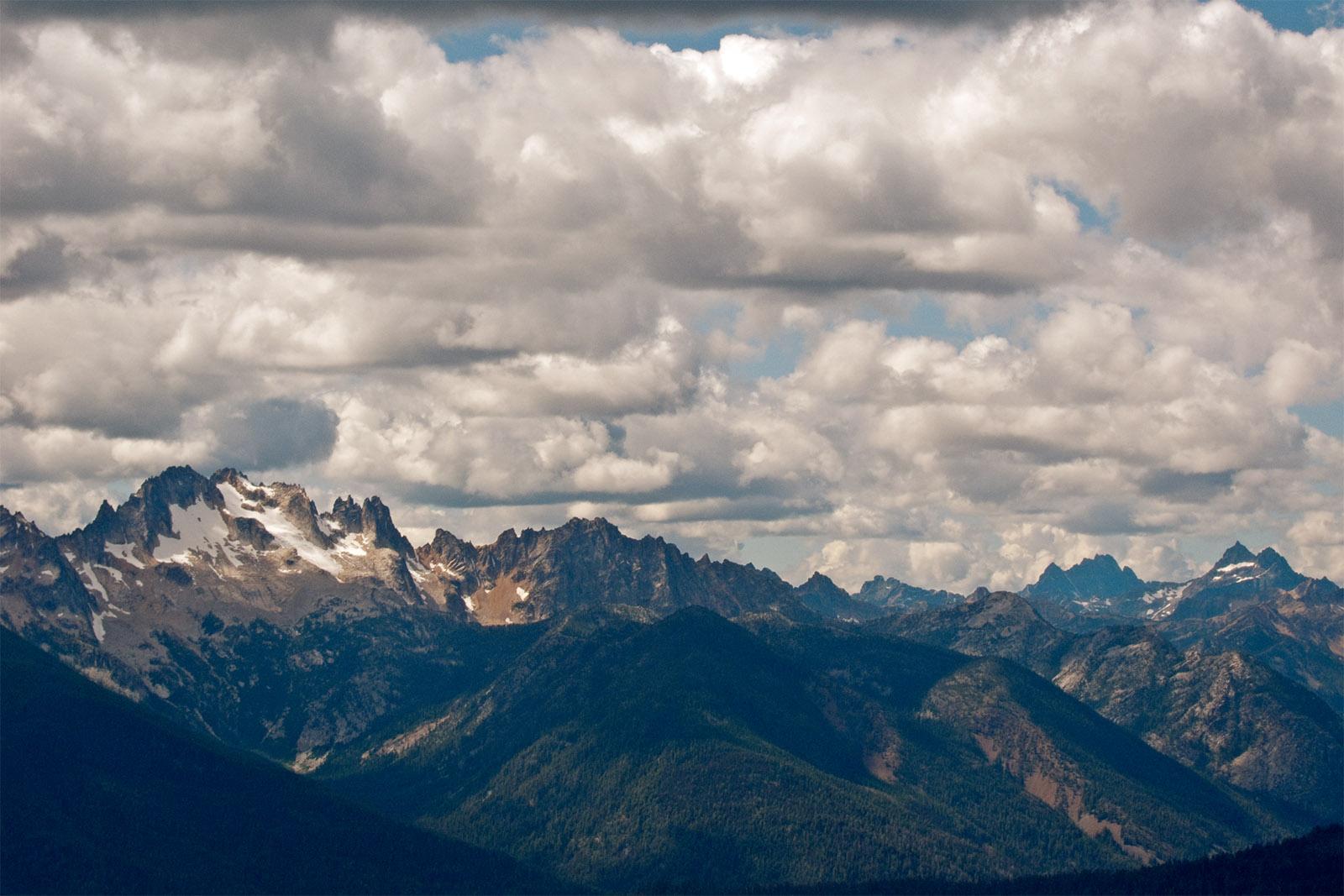 North Cascades from the Goat Pk trail.